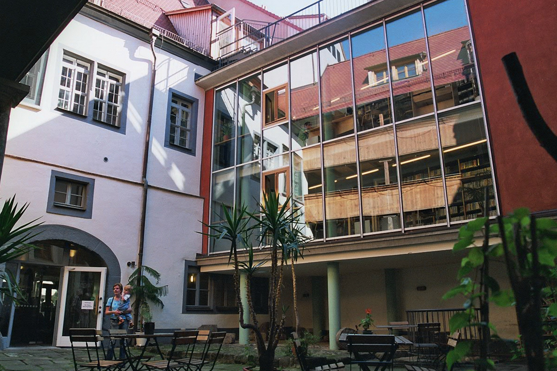 Pirna: Old and new - the patio of the town library.